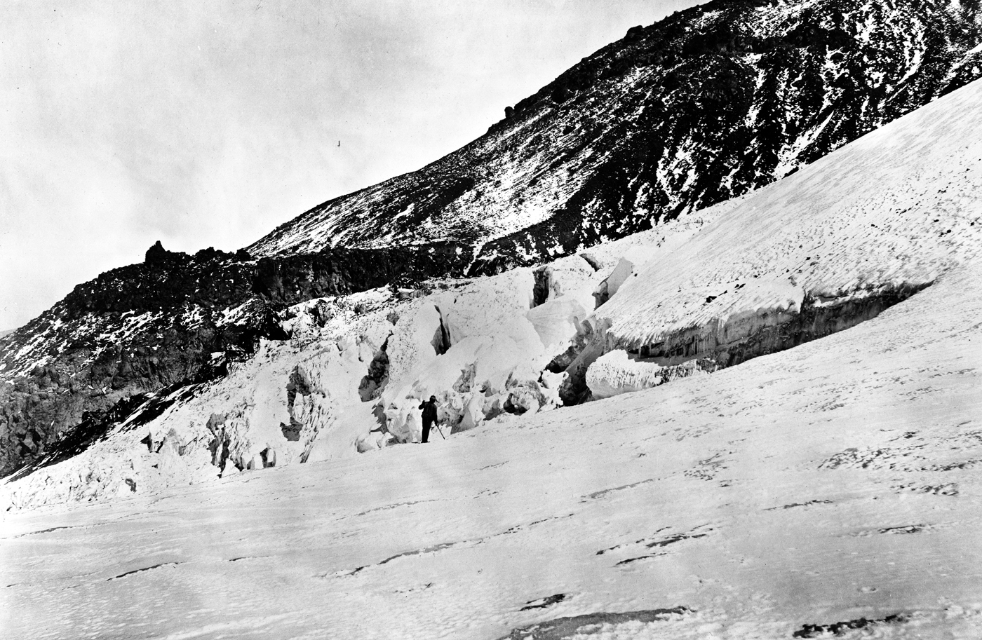 Mount Shasta and Whitney Glacier crevasses, seen from the crater (Shastina). Whitney Glacier in California was the first glacier described in the United States. Clarence King in the foreground. Photo by Carleton E. Watkins. U.S. Geological Exploration of the Fortieth Parallel (King Survey, 1867-1872)